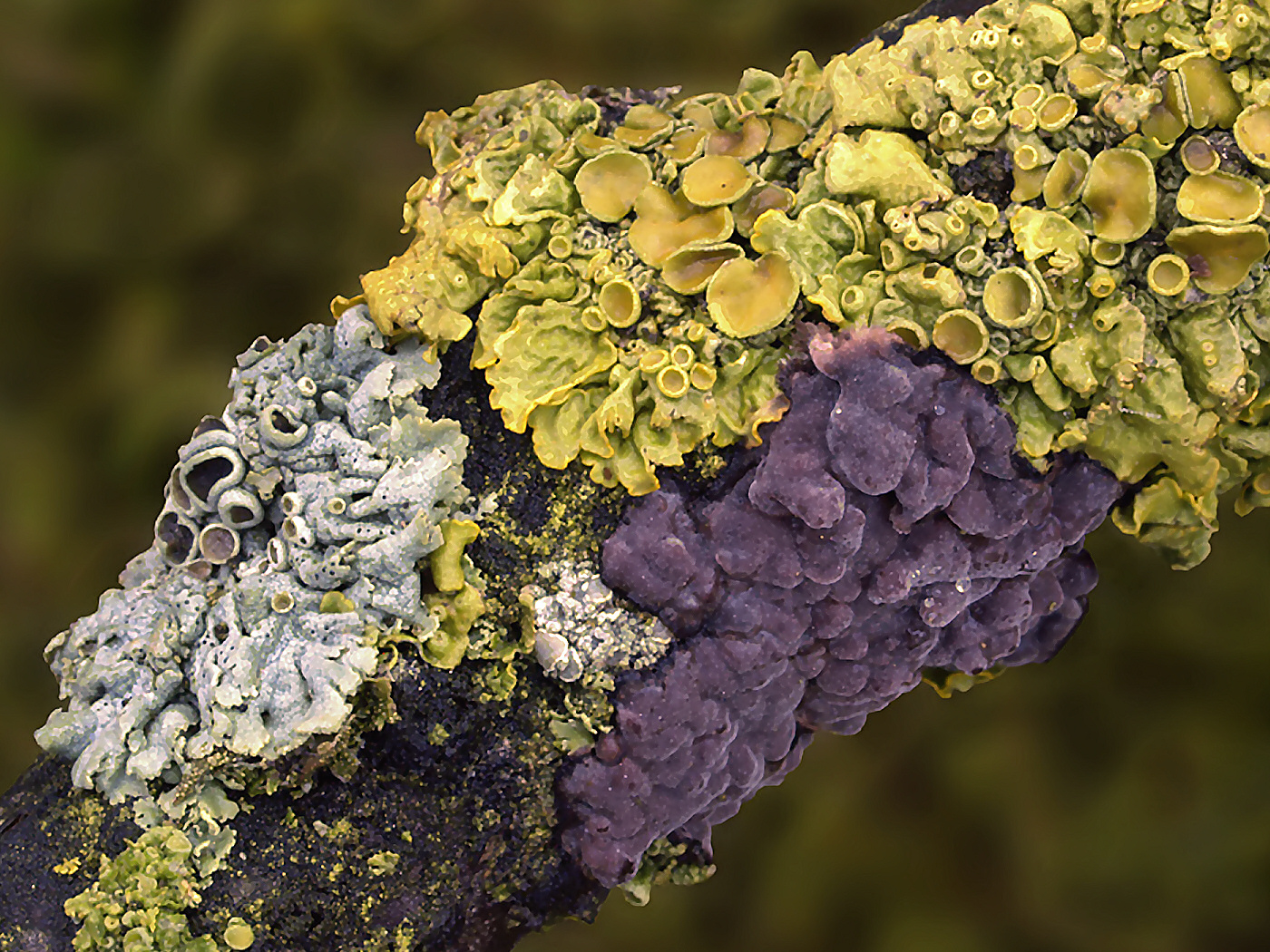 Peniophora quercina and Xanthoria parietina on Quercus. Mertingen, Germany.